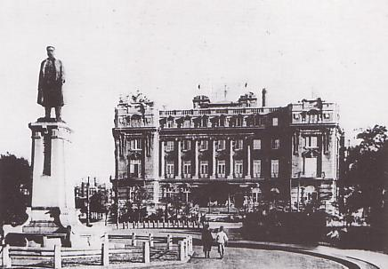 Yamagata-Dori in Dairen(Dalian)